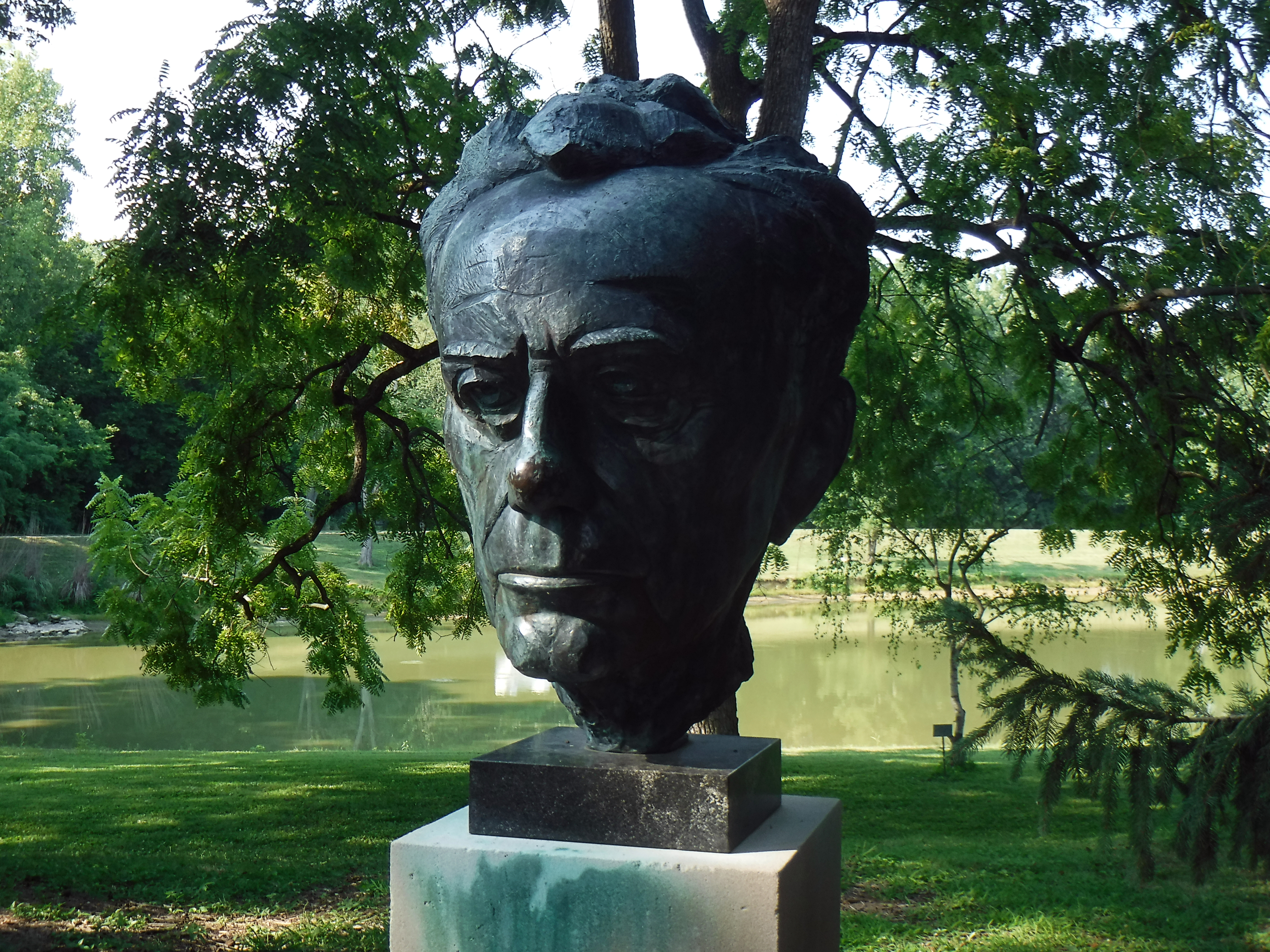 Tillich Park Bust New Harmony Posey County Indiana